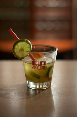 Capirissima, Alcoolic drink